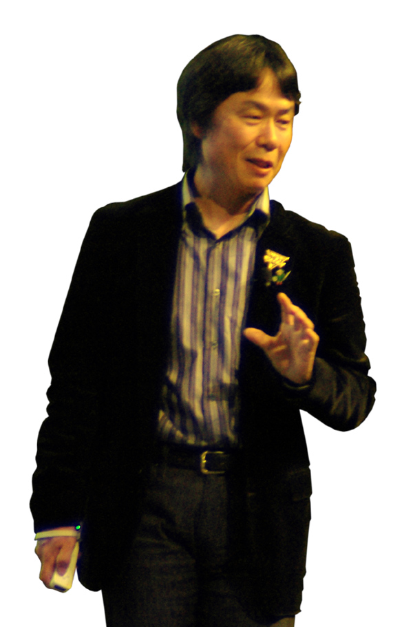 Shigeru Miyamoto at the Game Developers Conference 2007 with a Wiimote in the hand